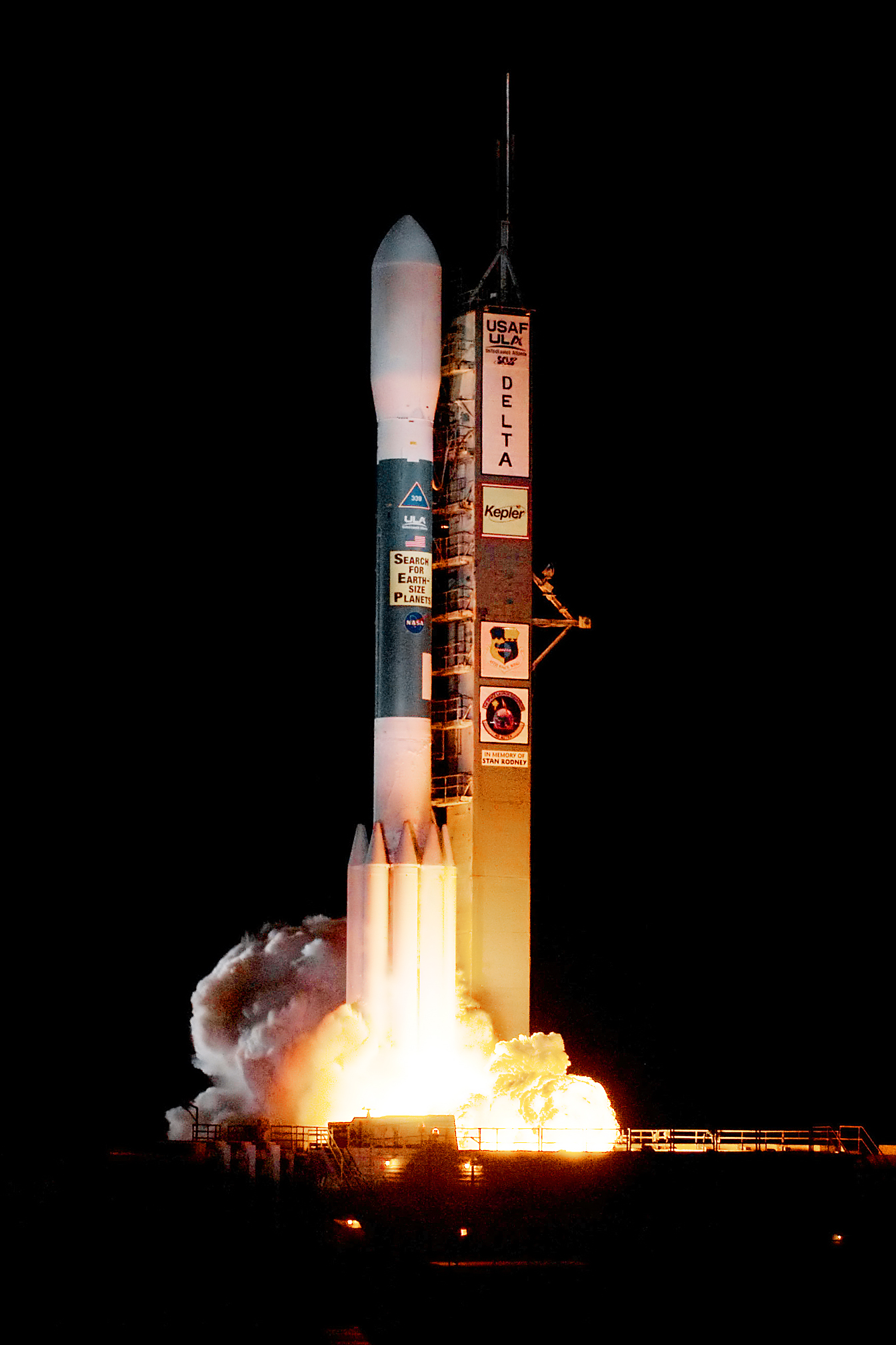 Ignition of a Delta II 7925-10L rocket with the the Kepler space telescope on Board